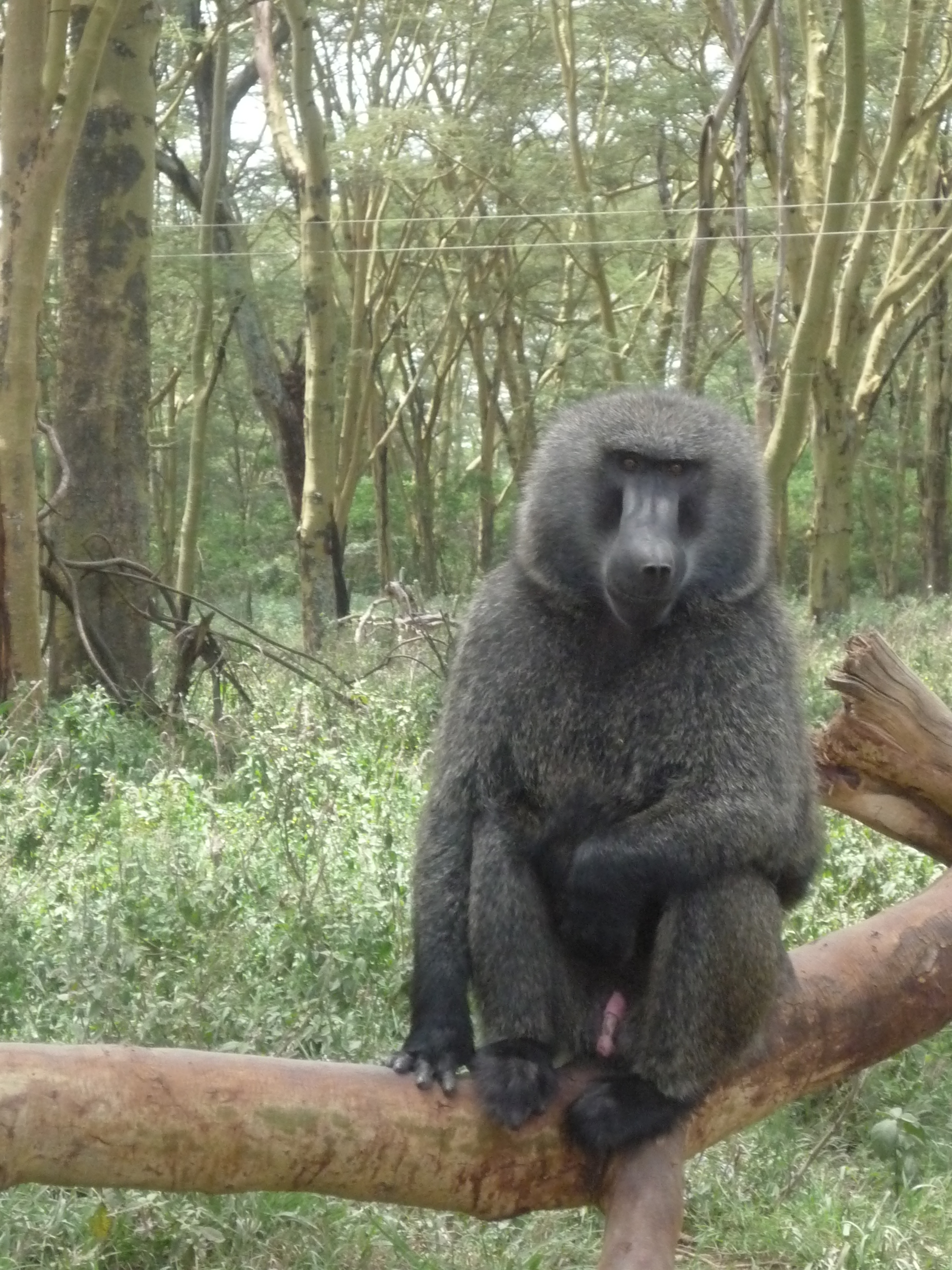 A baboon at lake nakuru national park